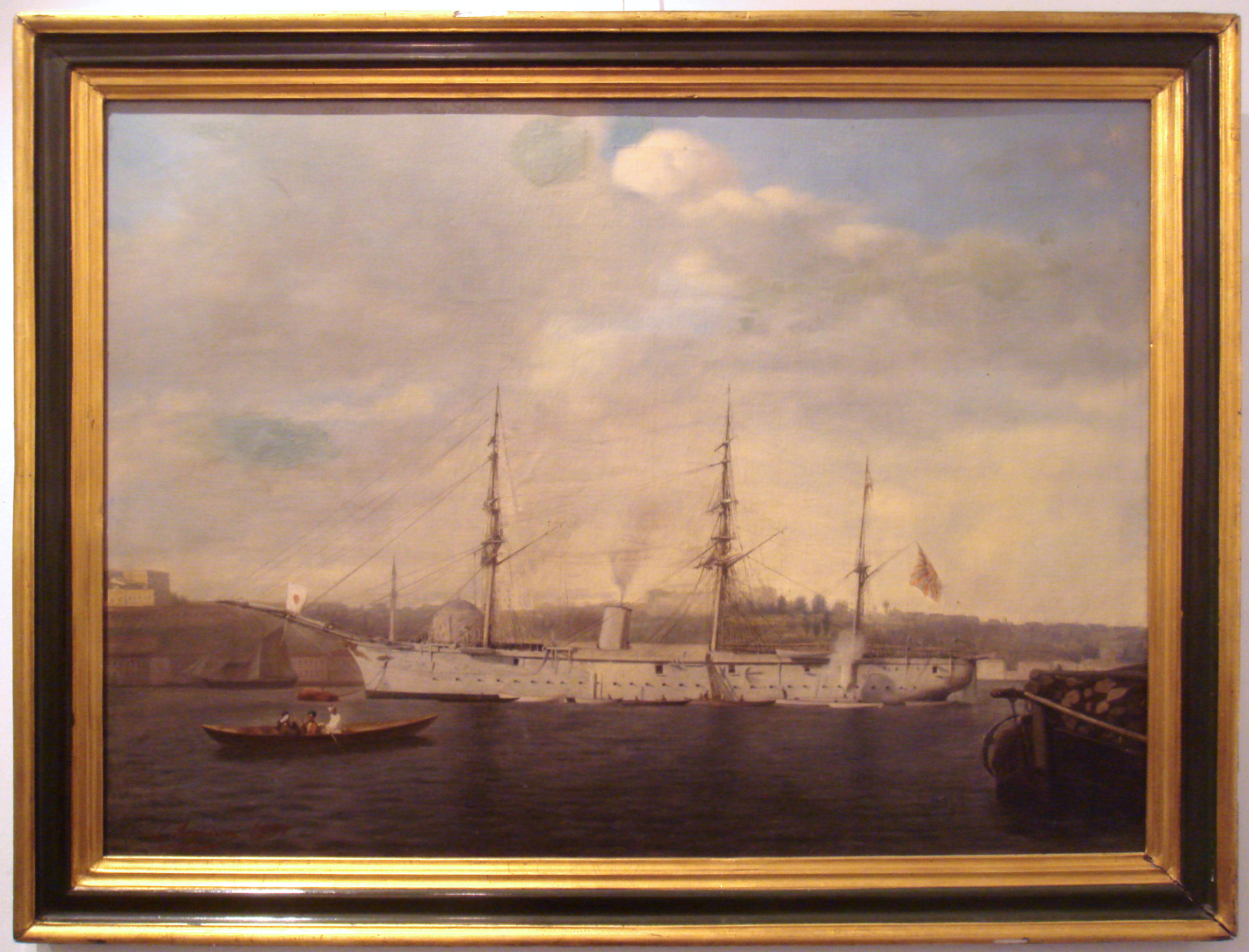 The Japanese Cruiser Kongo in Constantiniople (today known as Istanbul) in 1891 by Luigi Acquarone 1800-1896.